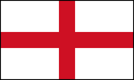 Bordered version of Image:Flag of England.svg for small inline use, where the border hack is not sufficient, by User:Dan1980.